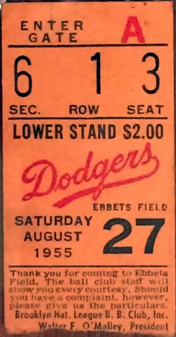 A ticket for an August 27, 1955 Major League Baseball game featuring the Cincinnati Redlegs versus the Brooklyn Dodgers at Ebbets Field. Dodgers pitcher Sandy Koufax collected his first career win in this game.